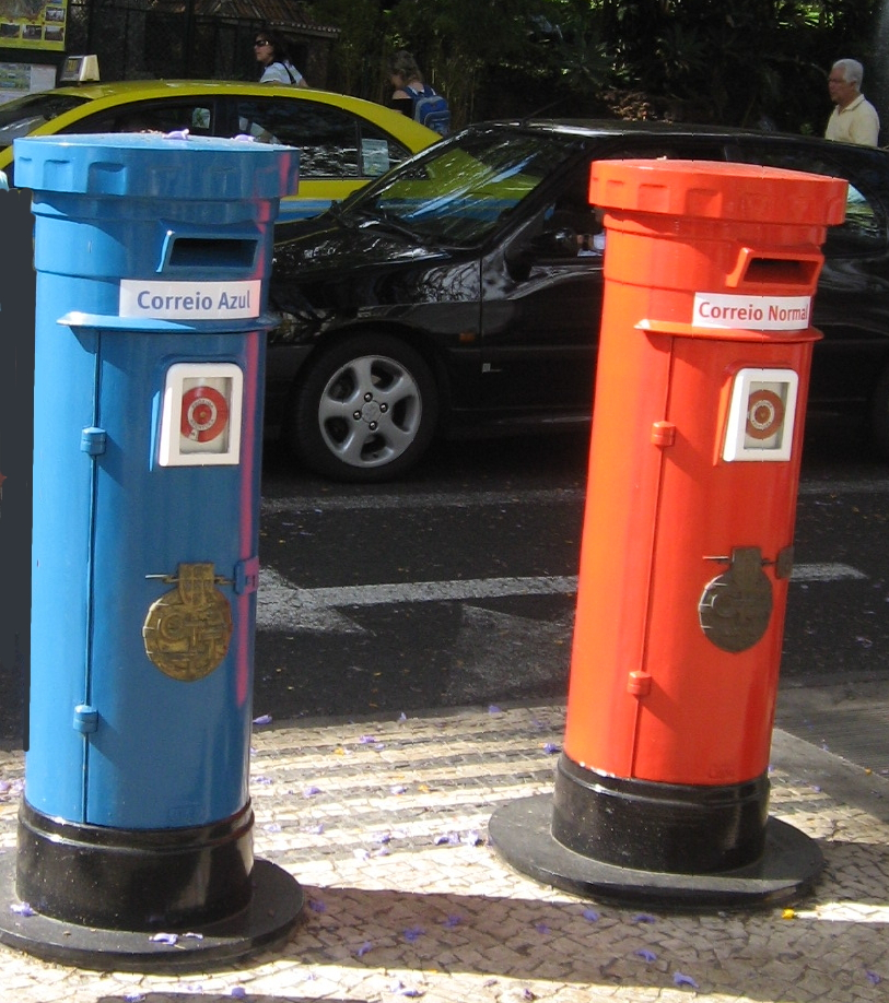 Pillar boxes on the island of Madeira. Blue for 1st class mail, red for 2nd.